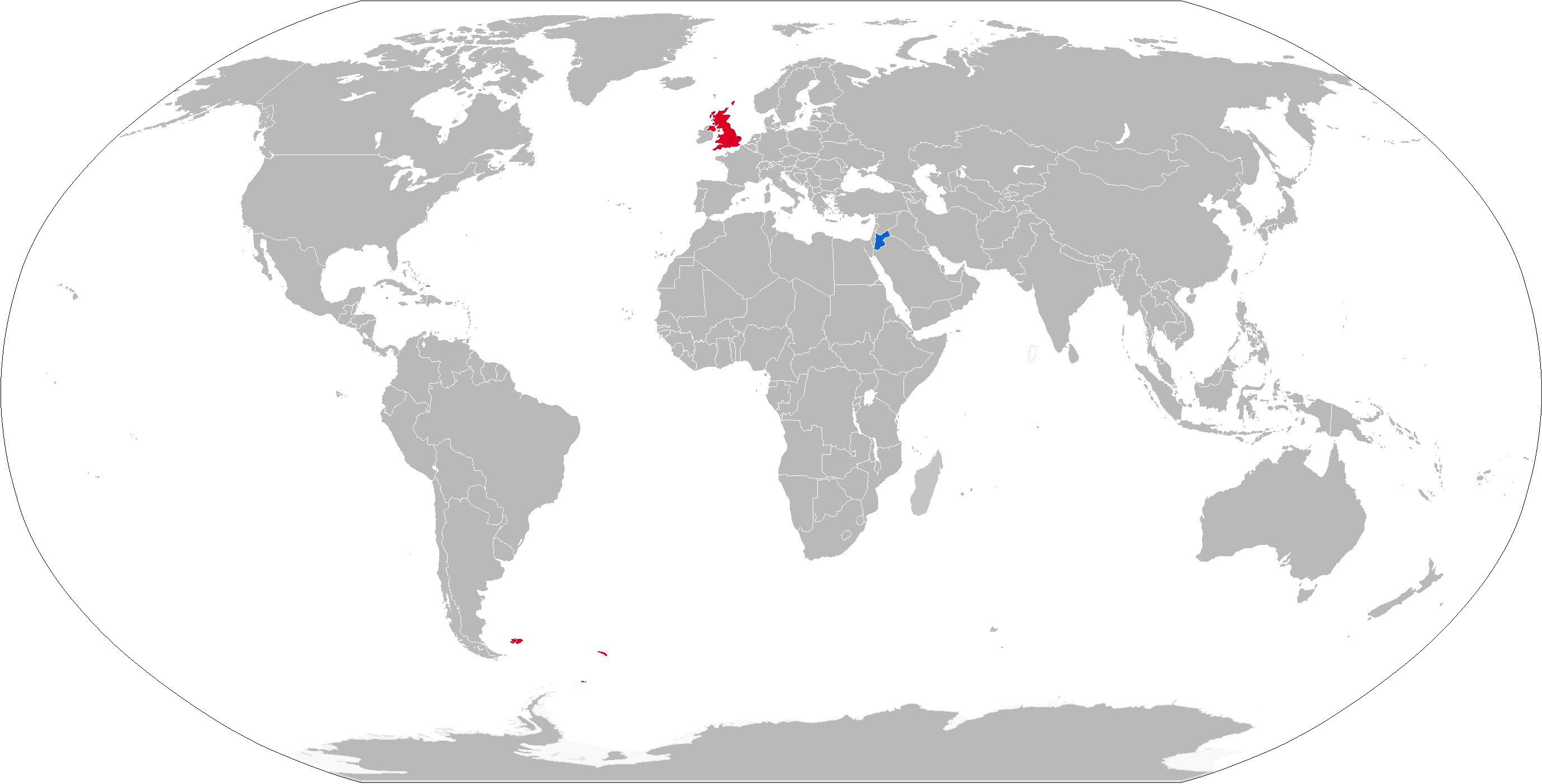 Map with LAW 80 operators in blue and former operators in red